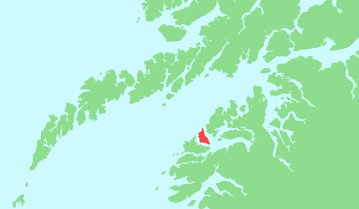 Locator map of Lundøya, Nordland, Norway